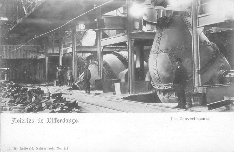 Steel works in Differdange; the Thomas converters. Photo by J.M. Bellwald, N° 218